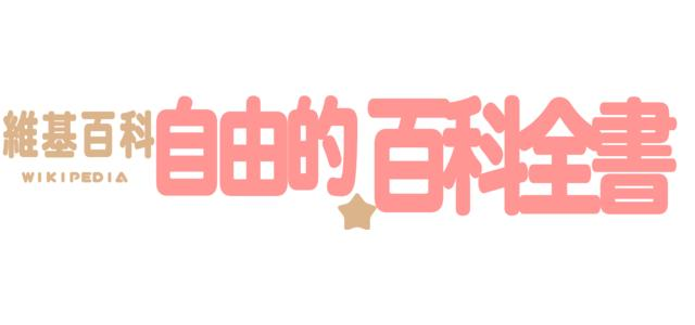 madoka_wikipedia, using Puella Magi Madoka Magica style.